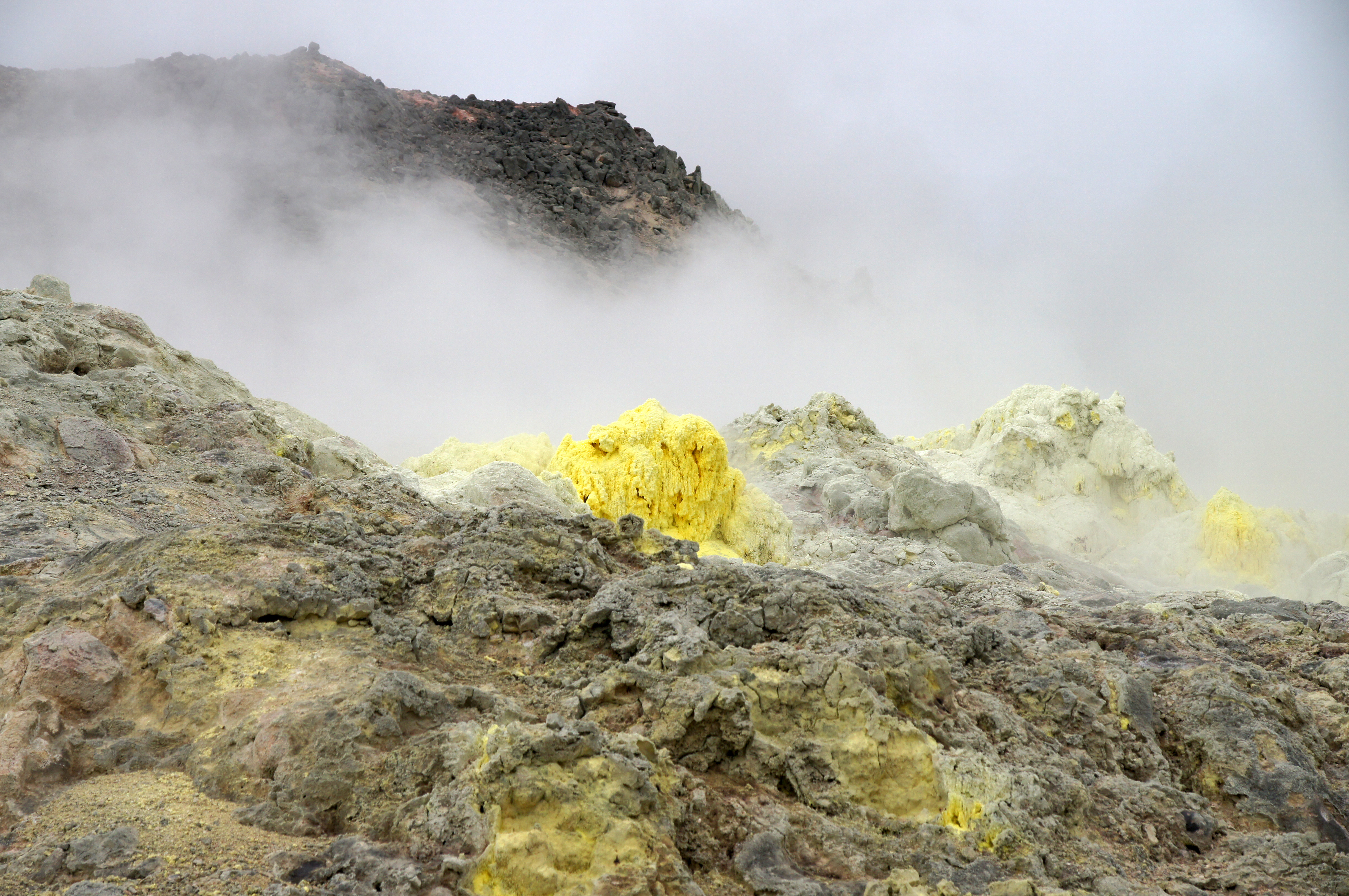 Mount Iō in Teshikaga, Hokkaido prefecture, Japan